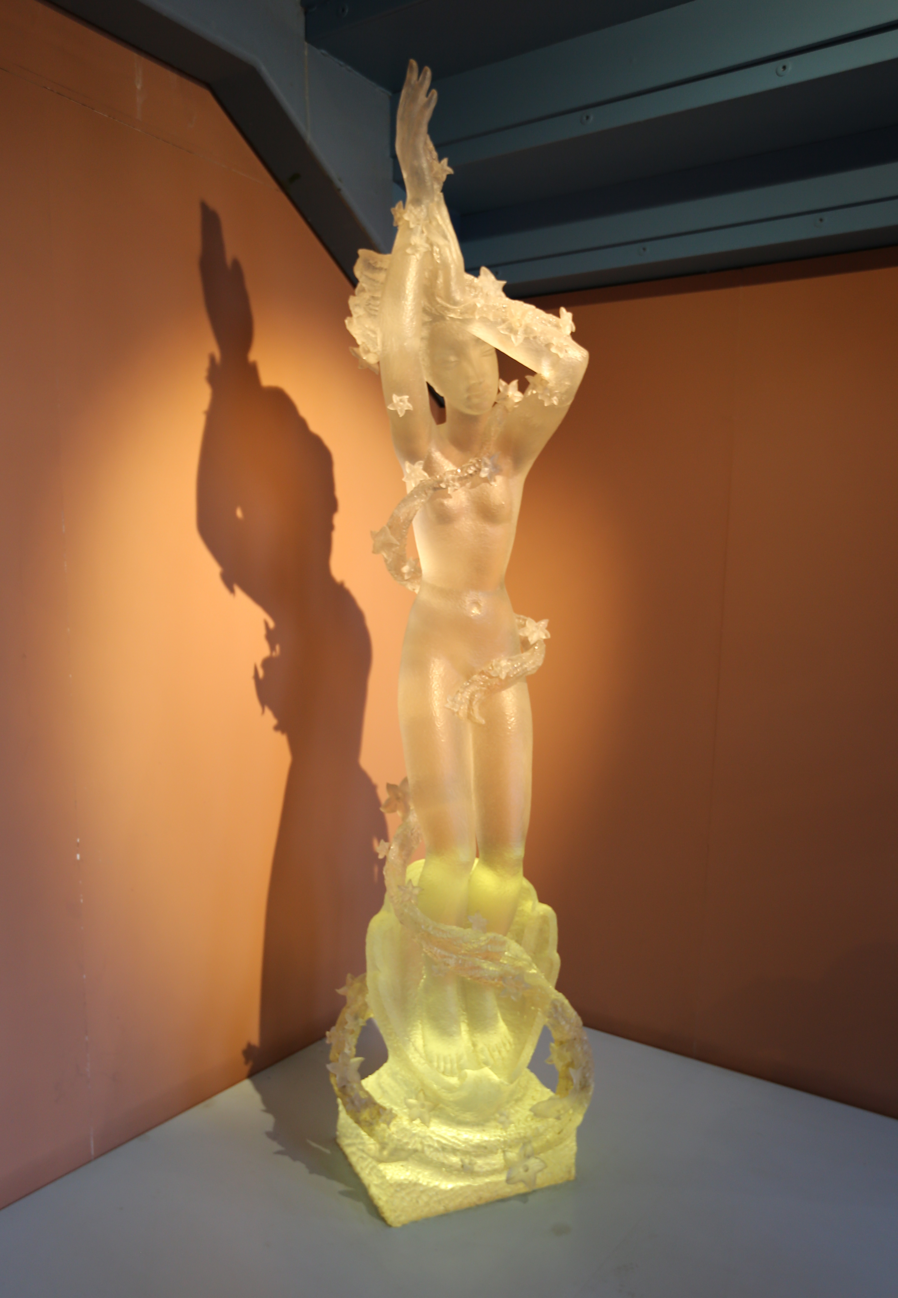 Photo of 1955 birth of Aphrodite sculpture by Arthur Fleischmann